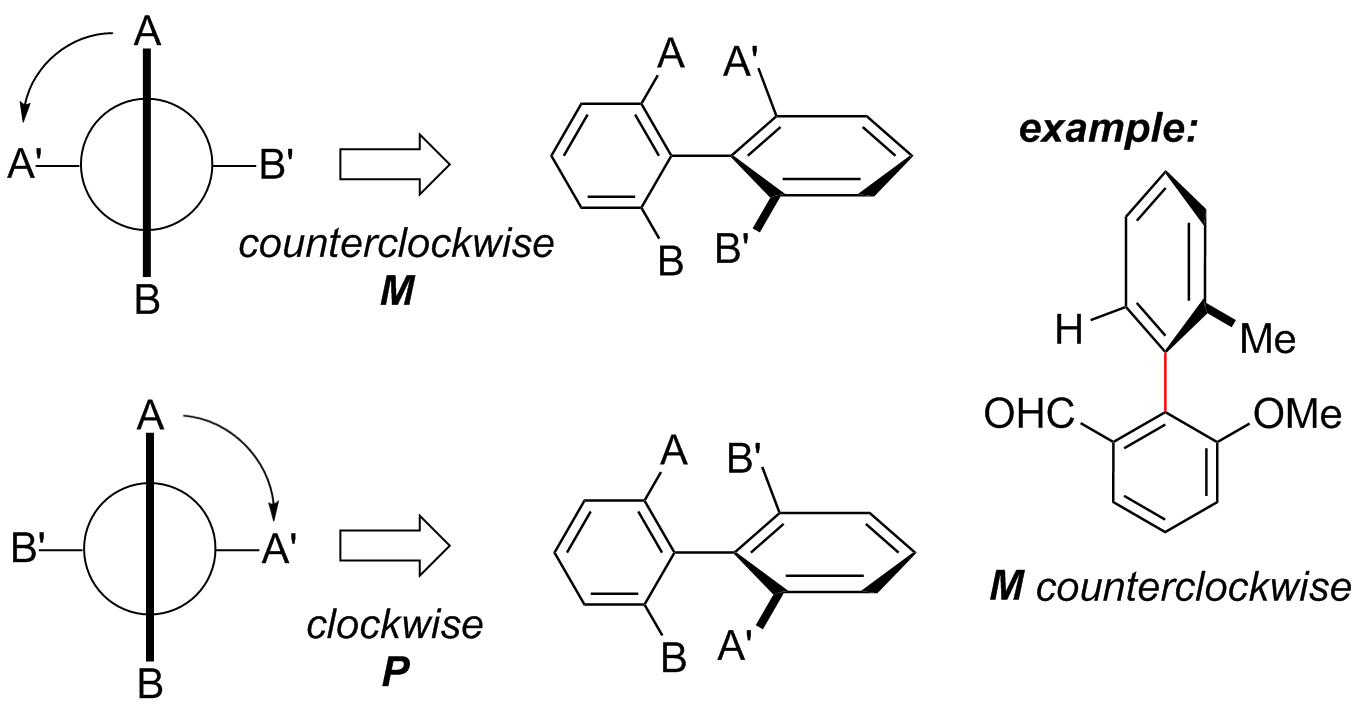 determining stereochemistry in atropisomers